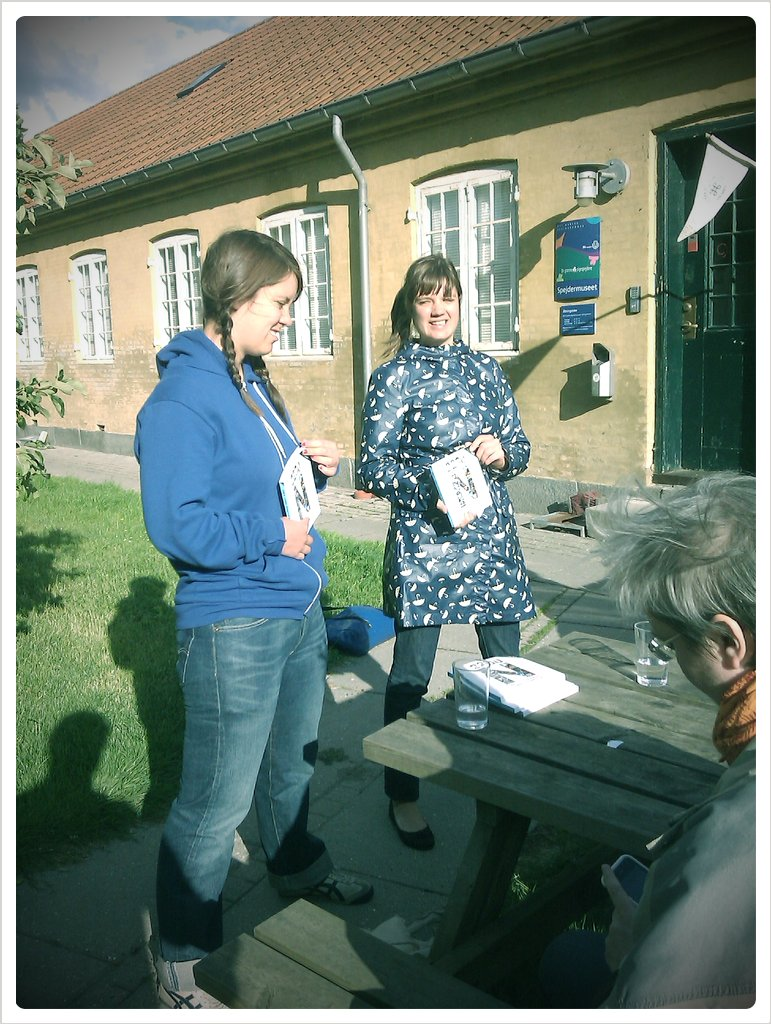 Taken with picplz.